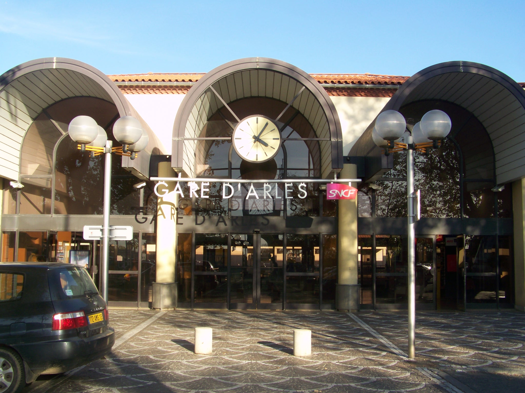 Entrance facade of city of Arles railway station, in the French department of Bouches-du-Rhône.